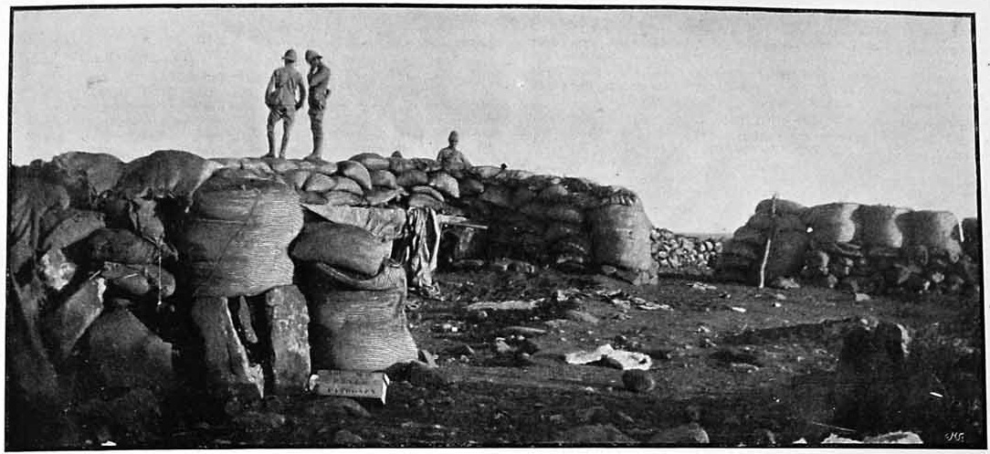 Vacated Boer gun position at Kamfers Dam, north of Kimberley